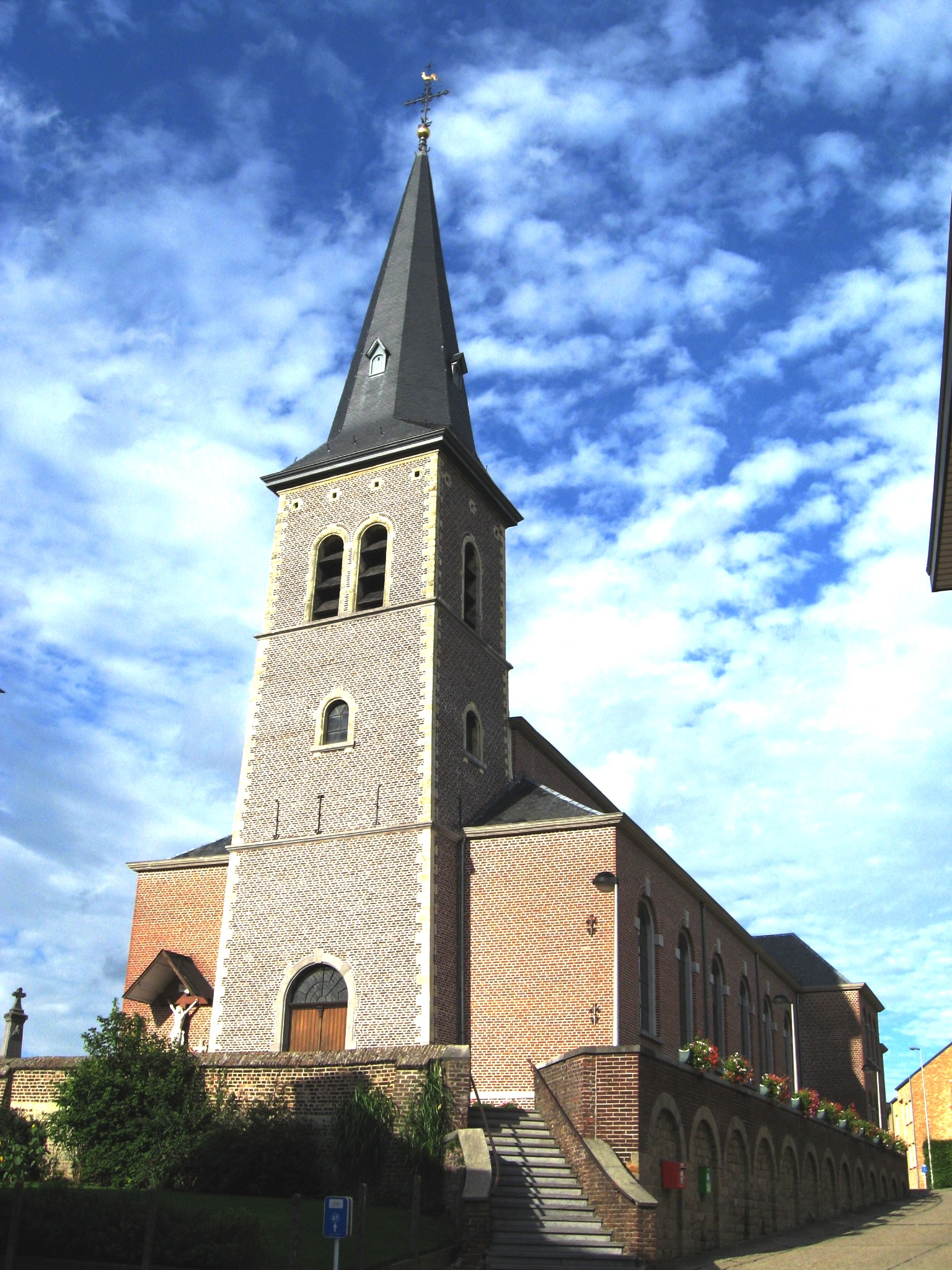 Church of Saint Remigius in Waltwilder, Limburg, Belgium